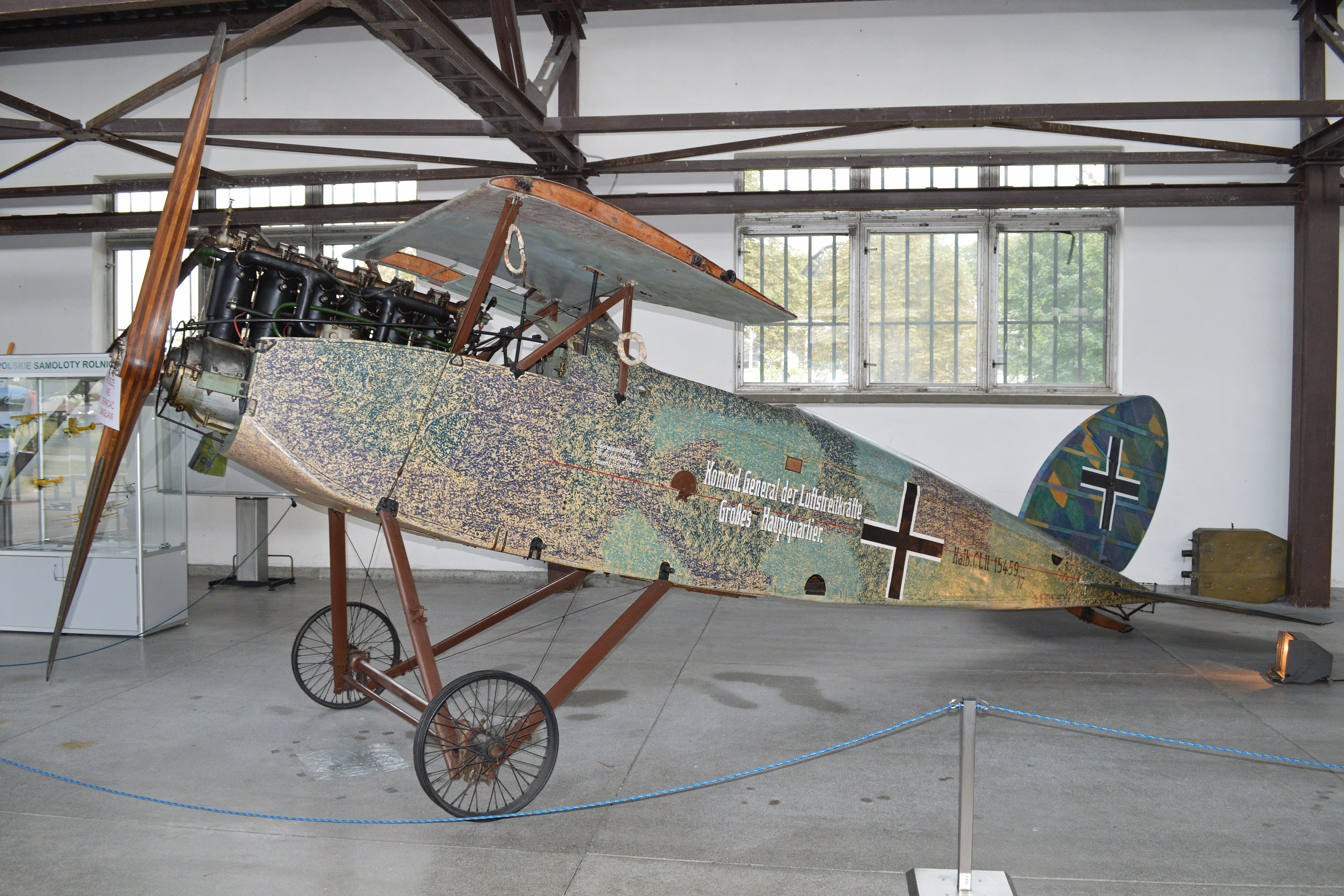 This is the sole surviving example of the 900 Halberstadt CL.II aircraft built. The type was a successful two-seat escort fighter ground attack aircraft. This machine served as the personal mount of the C-in-C of the German military aviation, general Gerth von Hoeppner. Until 1943 it was exhibited at the German Aviation Collection, but was then moved to Poland for safety. It was at this time that the wings were lost, as they were for many of the collections aeroplanes. Found in 1945, in 1963 it moved to Krakow, where the restored fuselage is now on display in the 'WW1' hangar at the Muzeum Lotnictwa Polskiego. Krakow, Poland. 23-8-2013.